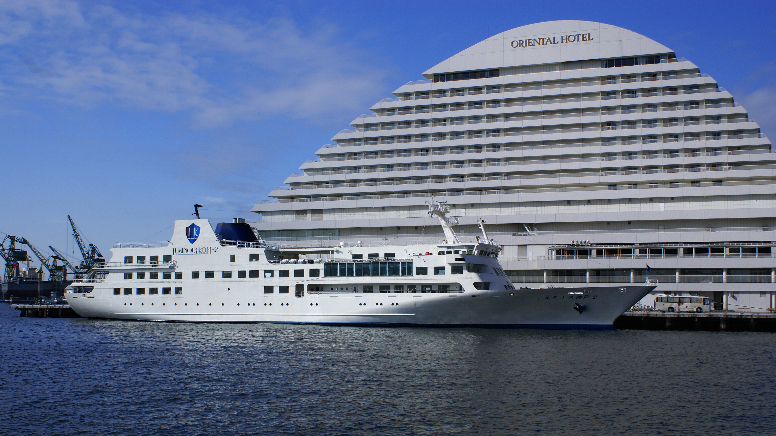 "Luminous Kobe2" at Port of Kobe in Kobe, Hyogo, Japan